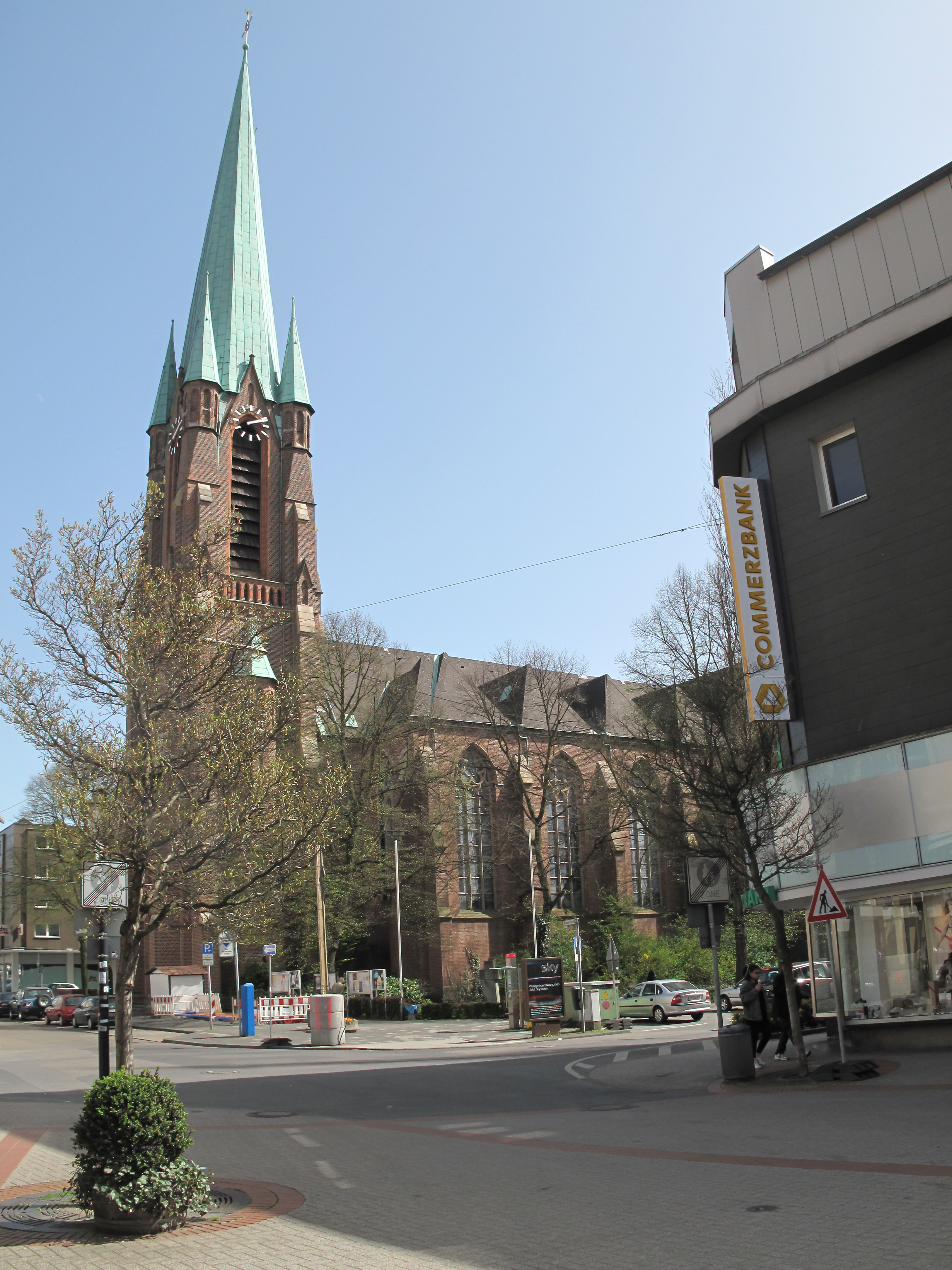 Horst, church